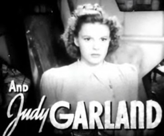 Cropped screenshot of Judy Garland from the trailer for the film Babes in Arms